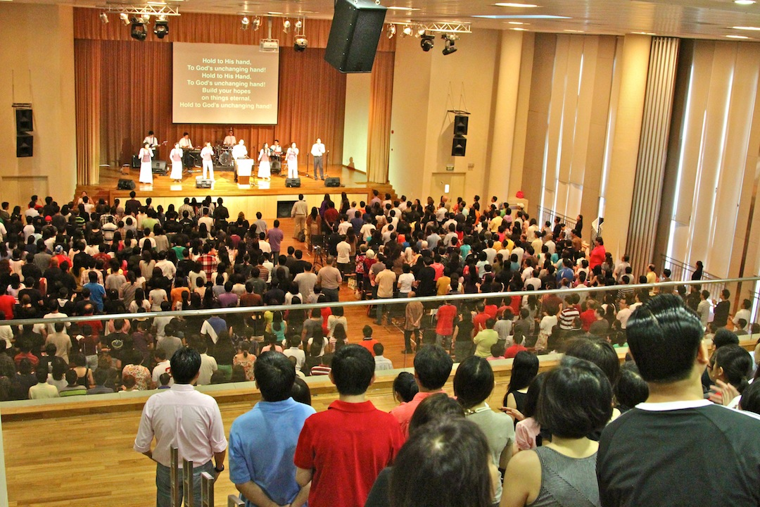 Central Christian Church worship service, International Churches of Christ, Singapore.